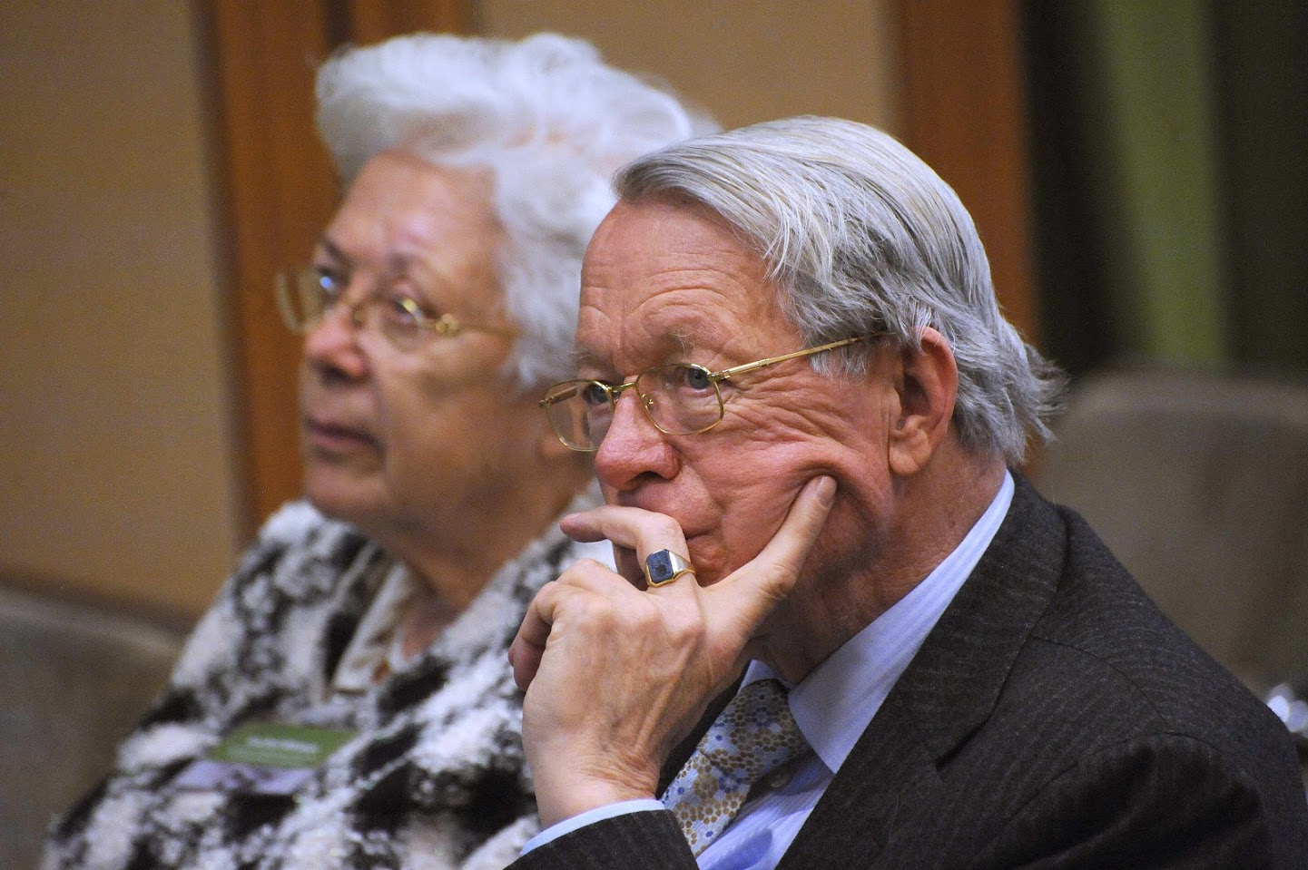 Rachel Ritman and Joost Ritman Under the subtitle “A Hermetic Reformation”, a scholarly conference was held in National Széchényi Library on February 18, 2017. The conference marks the opening of The Ritman Library’s traveling exhibition ‘Divine Wisdom – Divine Nature’, and its topics include alchemy, magic, Christian Kabbalah and the symbolic language of the Rosicrucians.